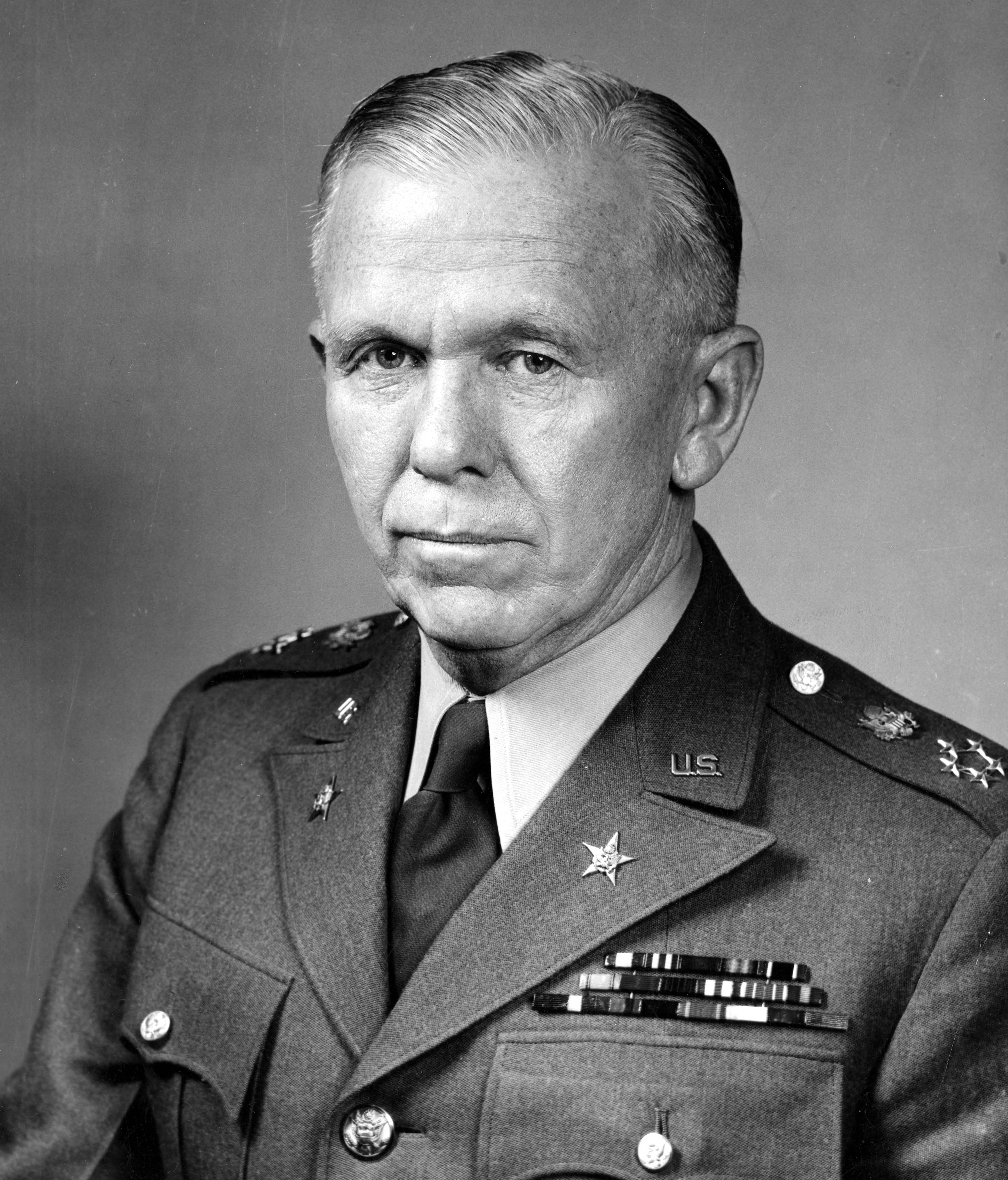 General of the Army George Catlett Marshall, Chief of Staff. U.S. Army, 1 September 1939-18 November 1945